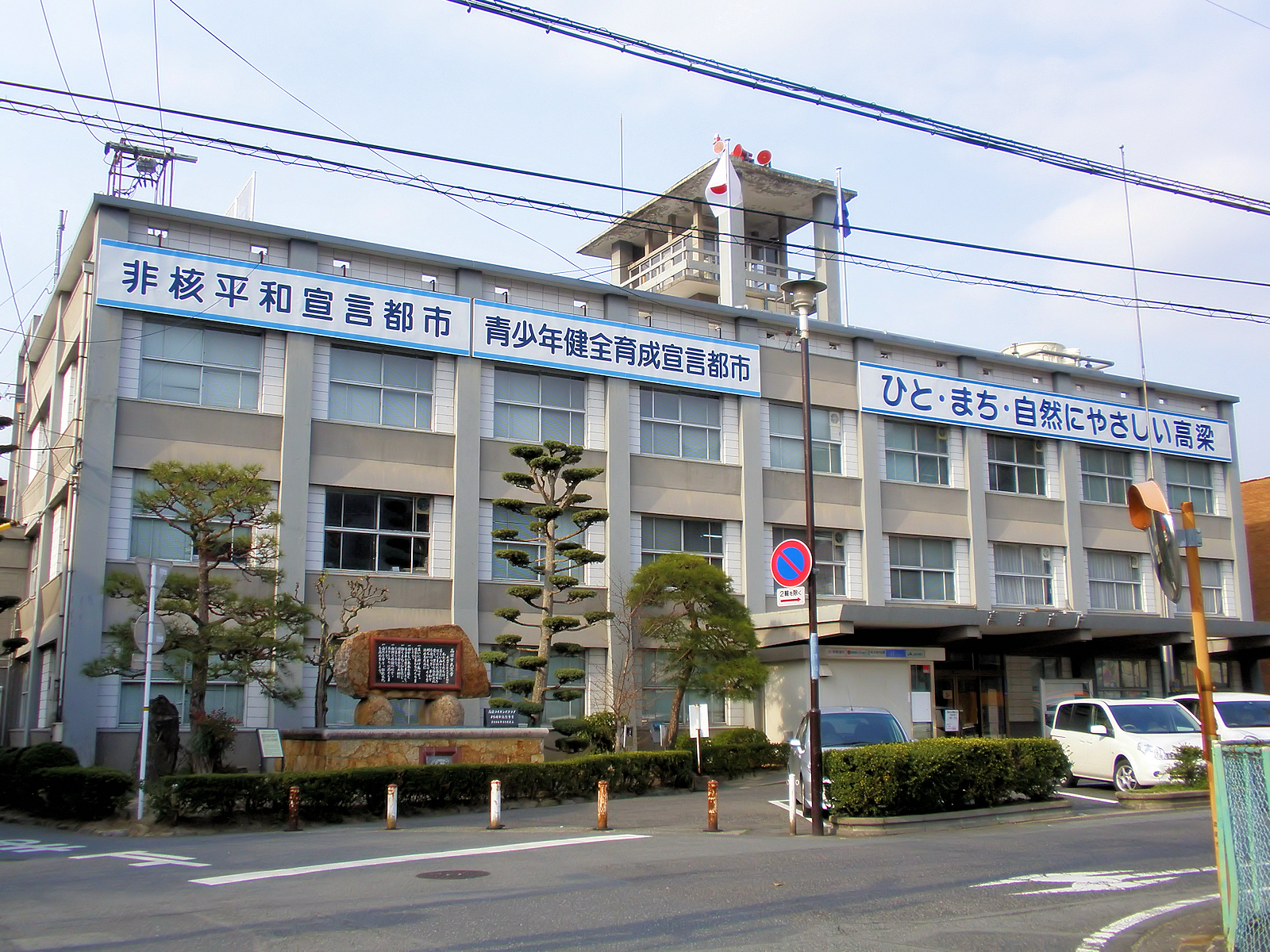 Former Takahashi city office (Since March, 1958)